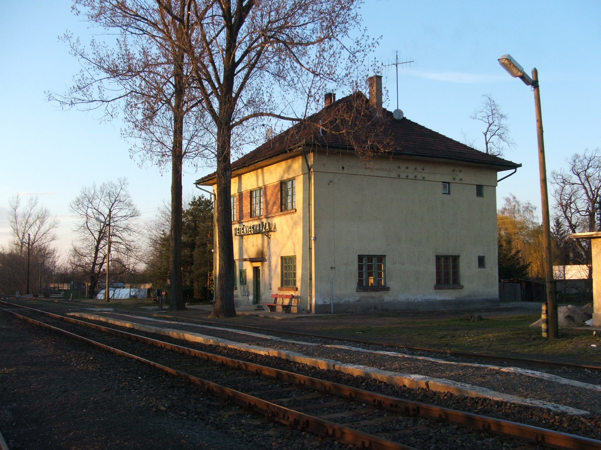 Train station of Hetényegyháza, Hungary.